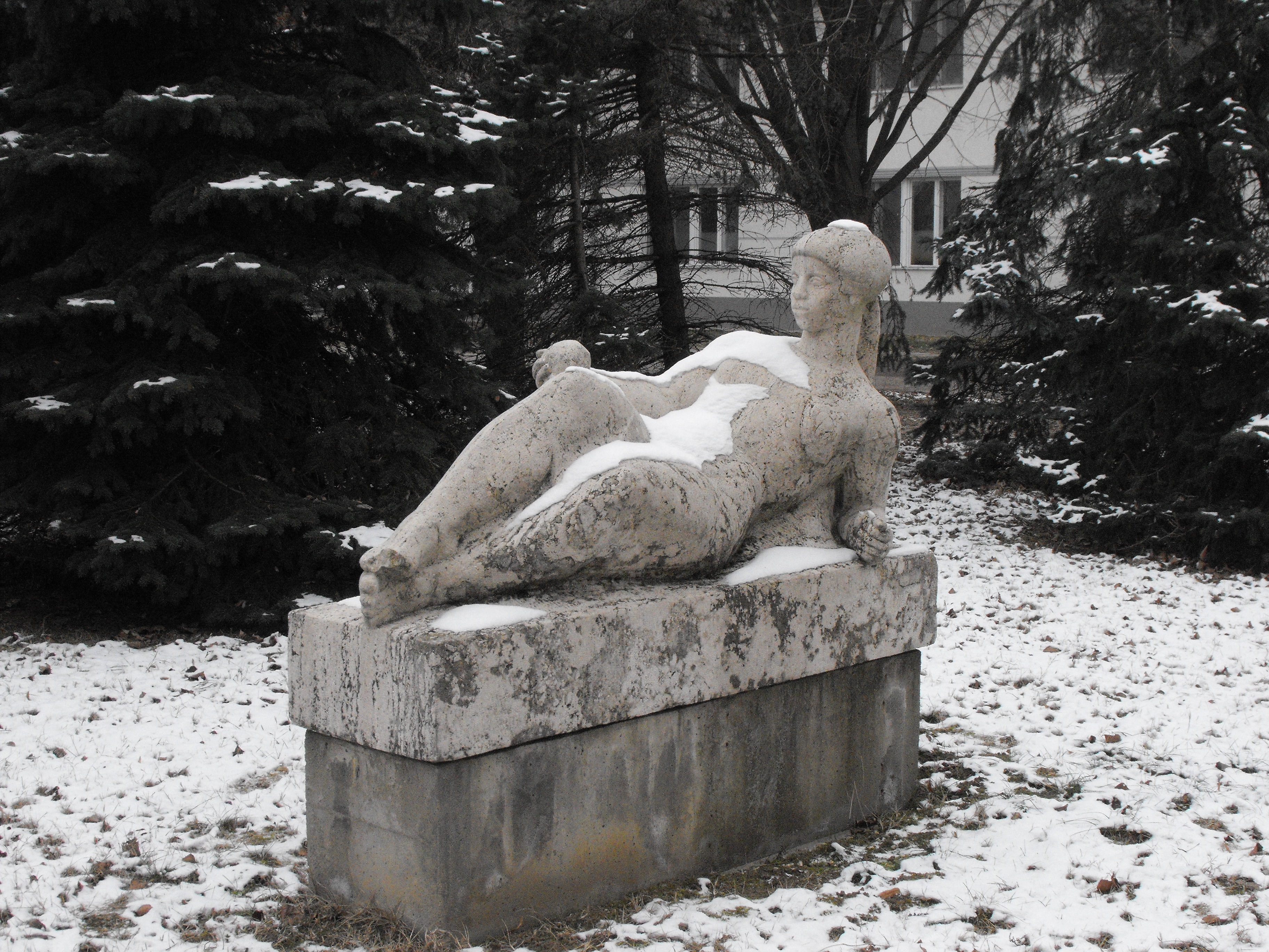 Lying woman by Károly Radó, a statue in Makó, Csongrád County, 2009 Hungary.